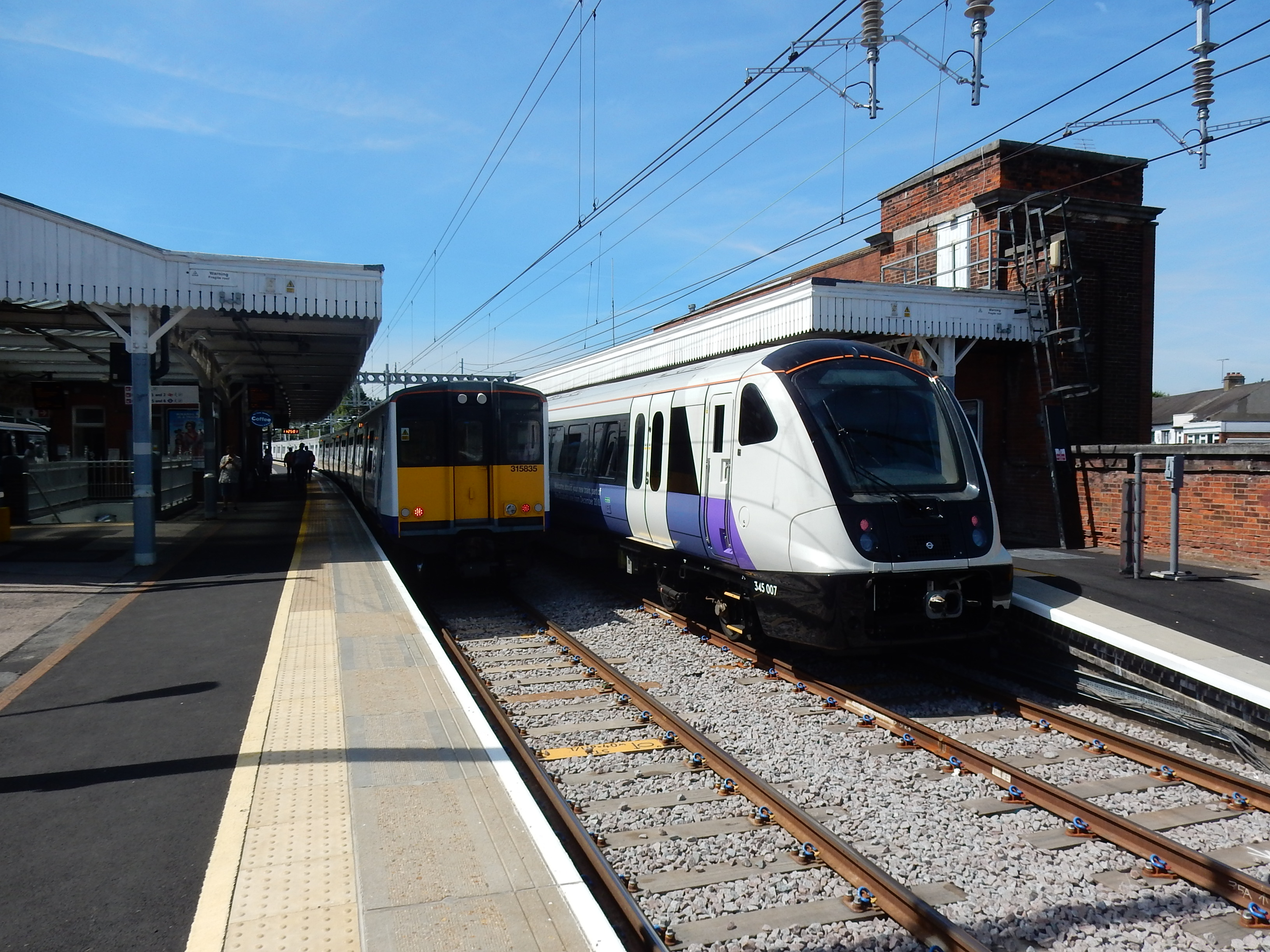 Class 345 unit 345007 basks in the sunshine at Shenfield station before making the (at time of writing) daily westbound Class 345 service towards London Liverpool Street, on 7th July 2017. For comparison, the previous generation of Great Eastern EMU is represented by unit 315835.